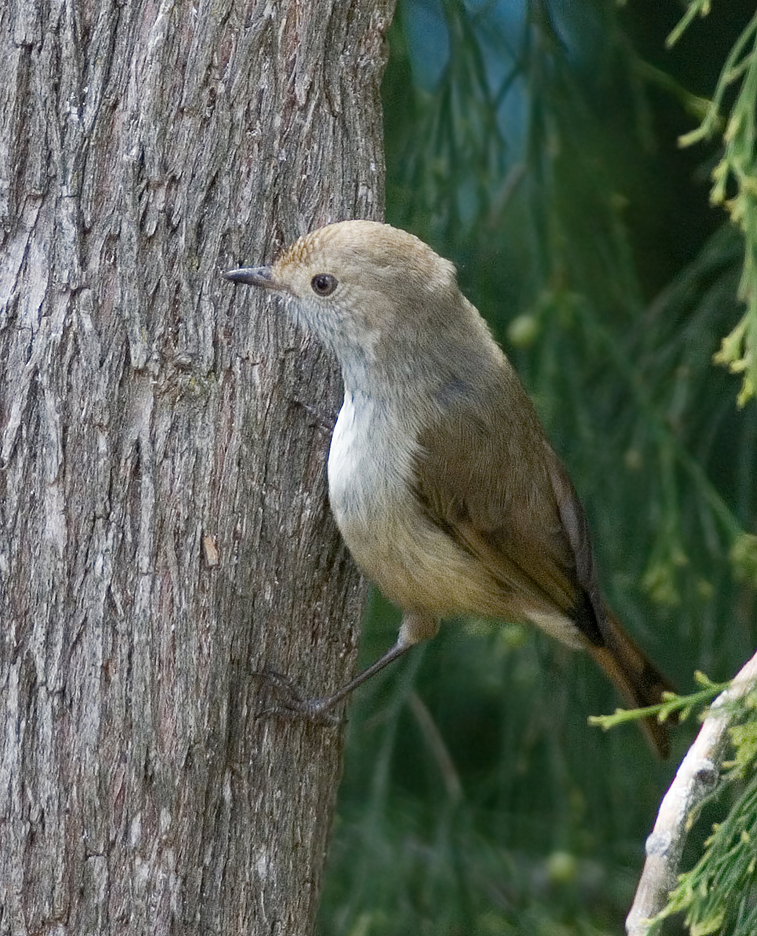 Brown Thornbill (Acanthiza pusilla) at Risdon Brook Dam, Tasmania, Australia Camera data Camera Canon EOS 400D Lens Canon EF 400mm f5.6L Flash Fill w/ Fresnel Extender Focal length 400 mm Aperture f/5.6 Exposure time 1/400 s Sensivity ISO 1600